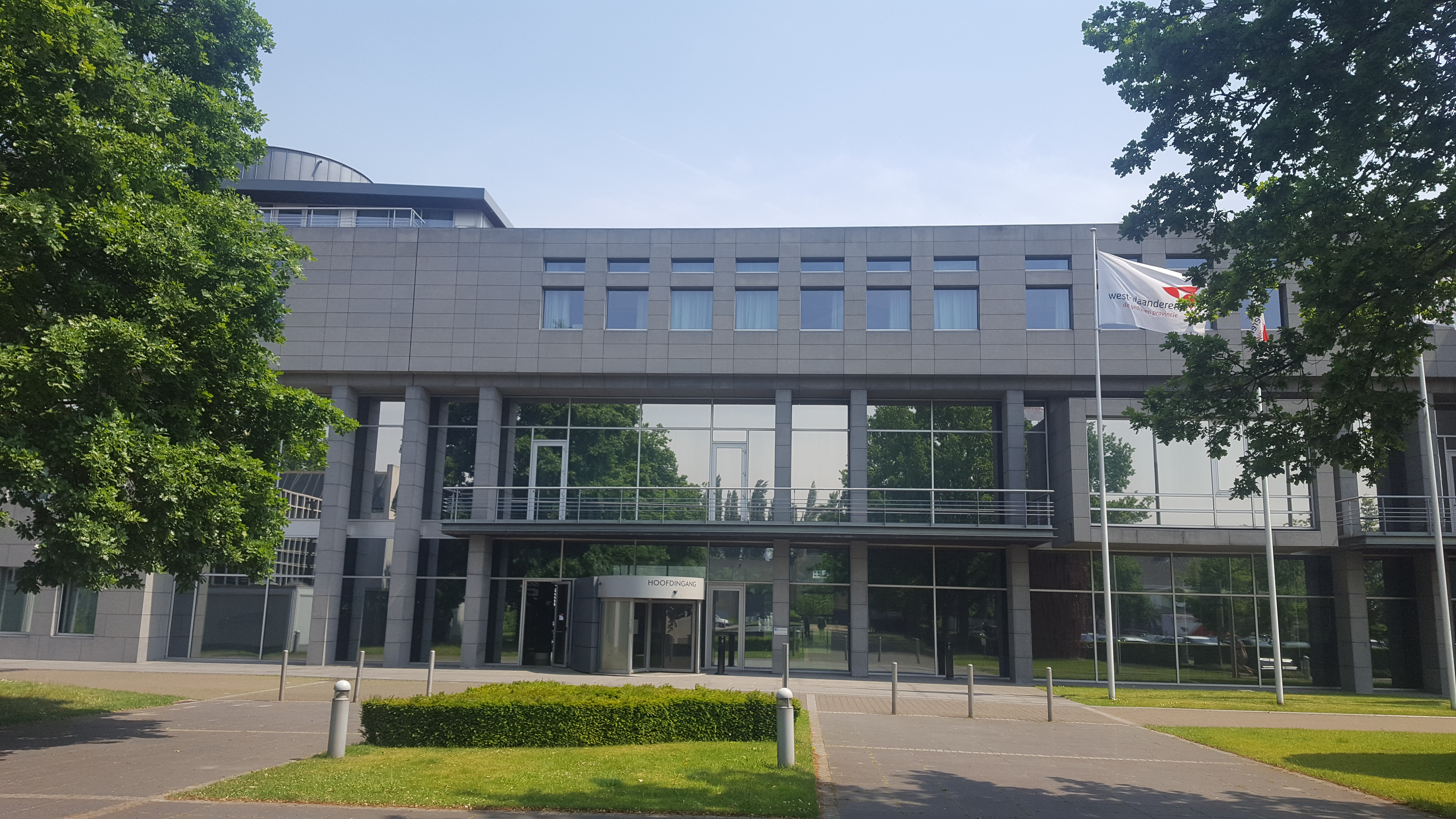 Provinciehuis Boeverbos, province building of West Flanders, Belgium